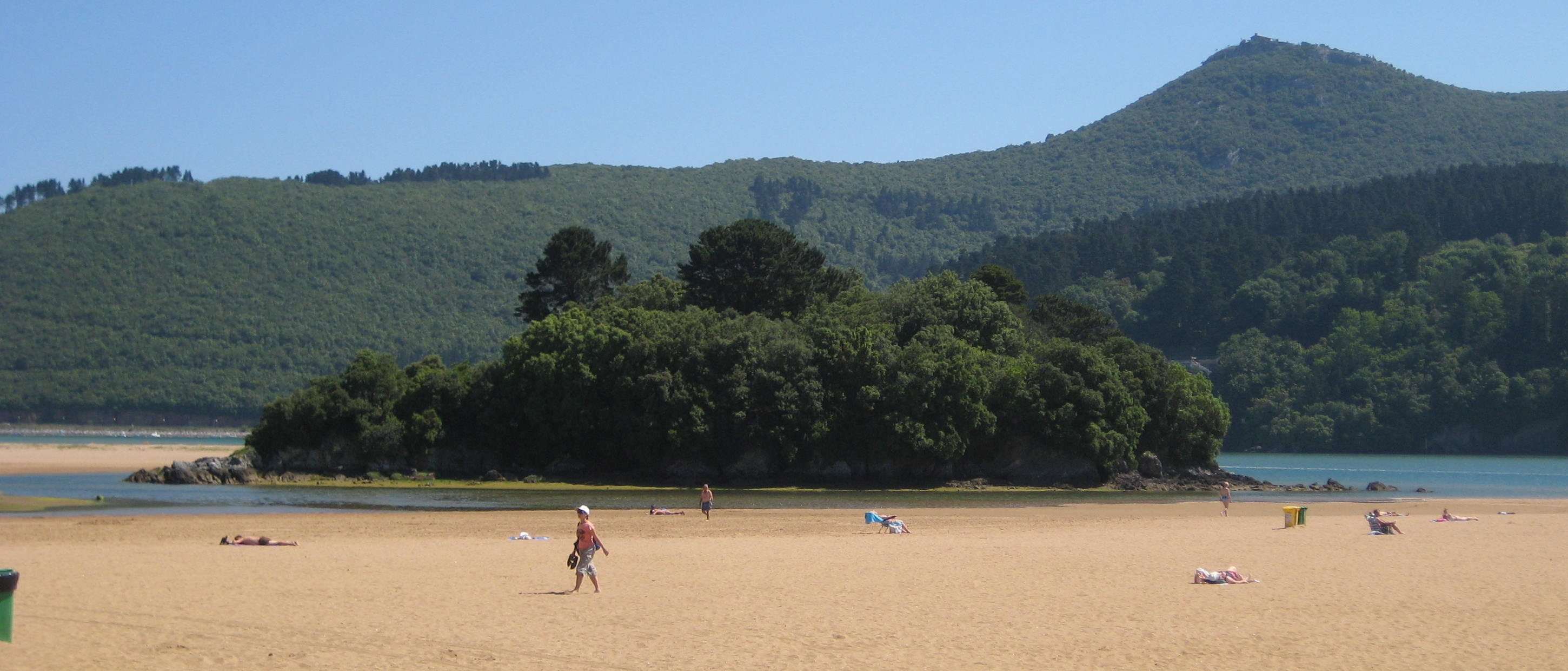 San Antonio beach and Sandindere island in Abina, Sukarrieta-Pedernales. Behind, mount Ereñozar in Ereño. Between them, the estuary of Urdaibiai.